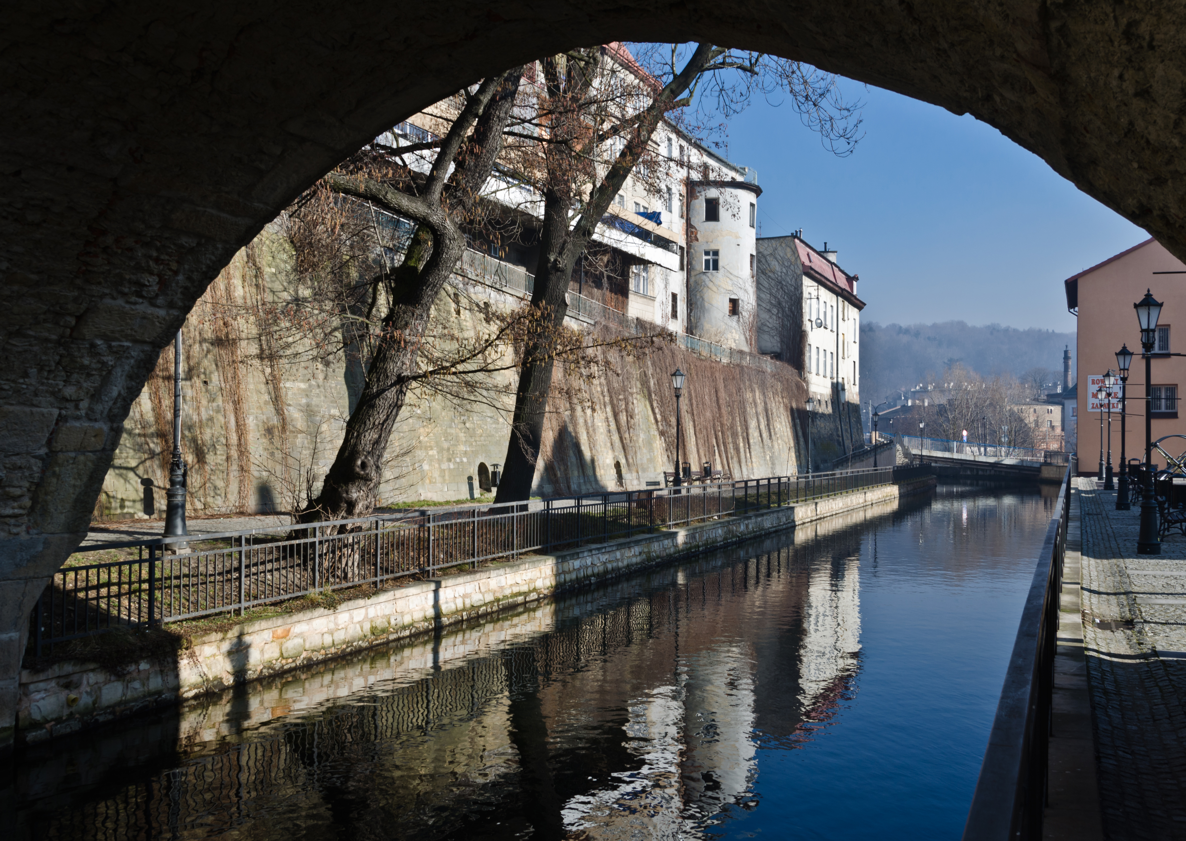 Młynówka canal and defensive walls in Kłodzko